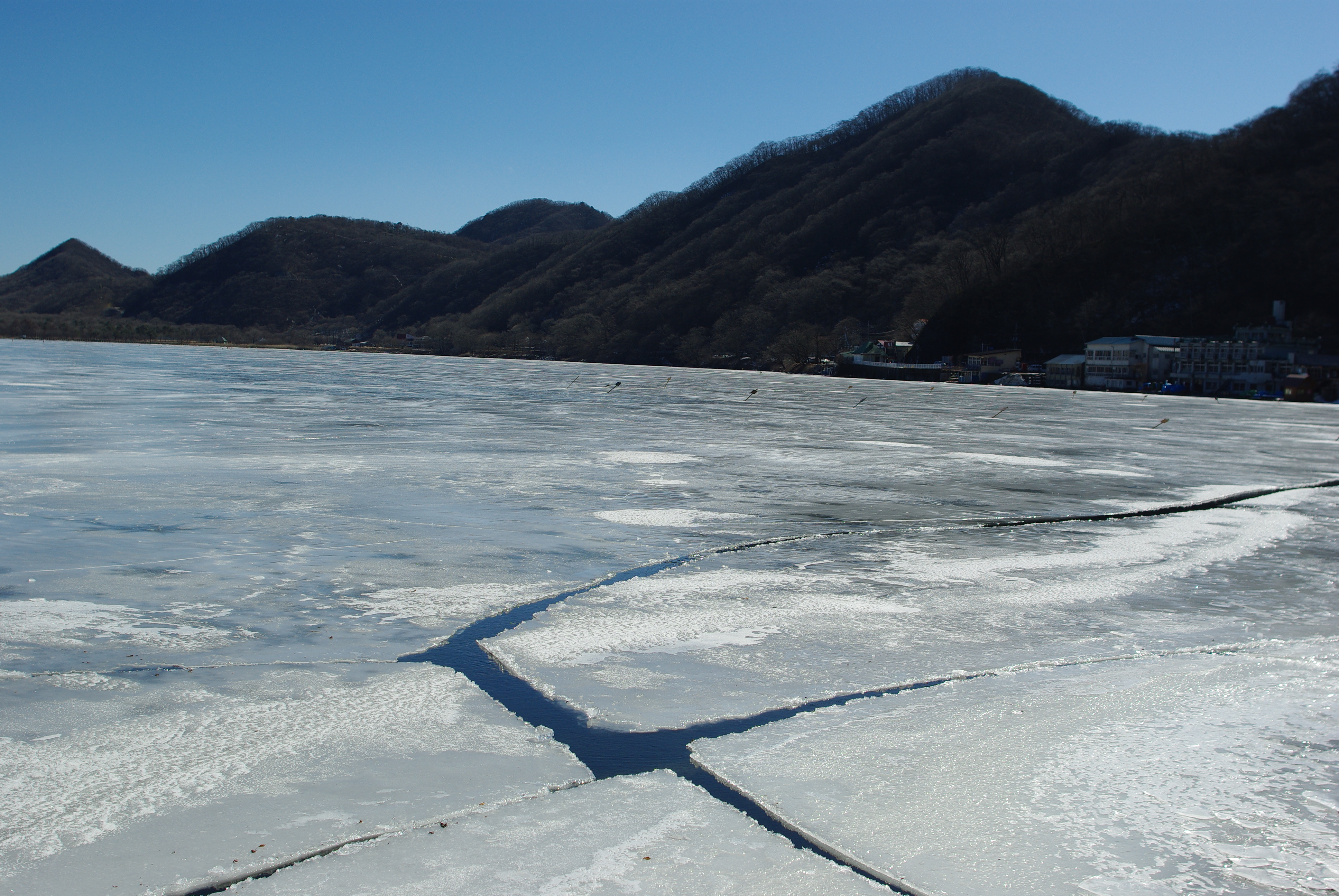 Lake Haruna in February. Pentax K200D